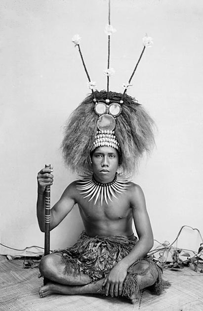 A Manaia, the son of a Samoan chief (Matai) wearing a tuiga head dress.